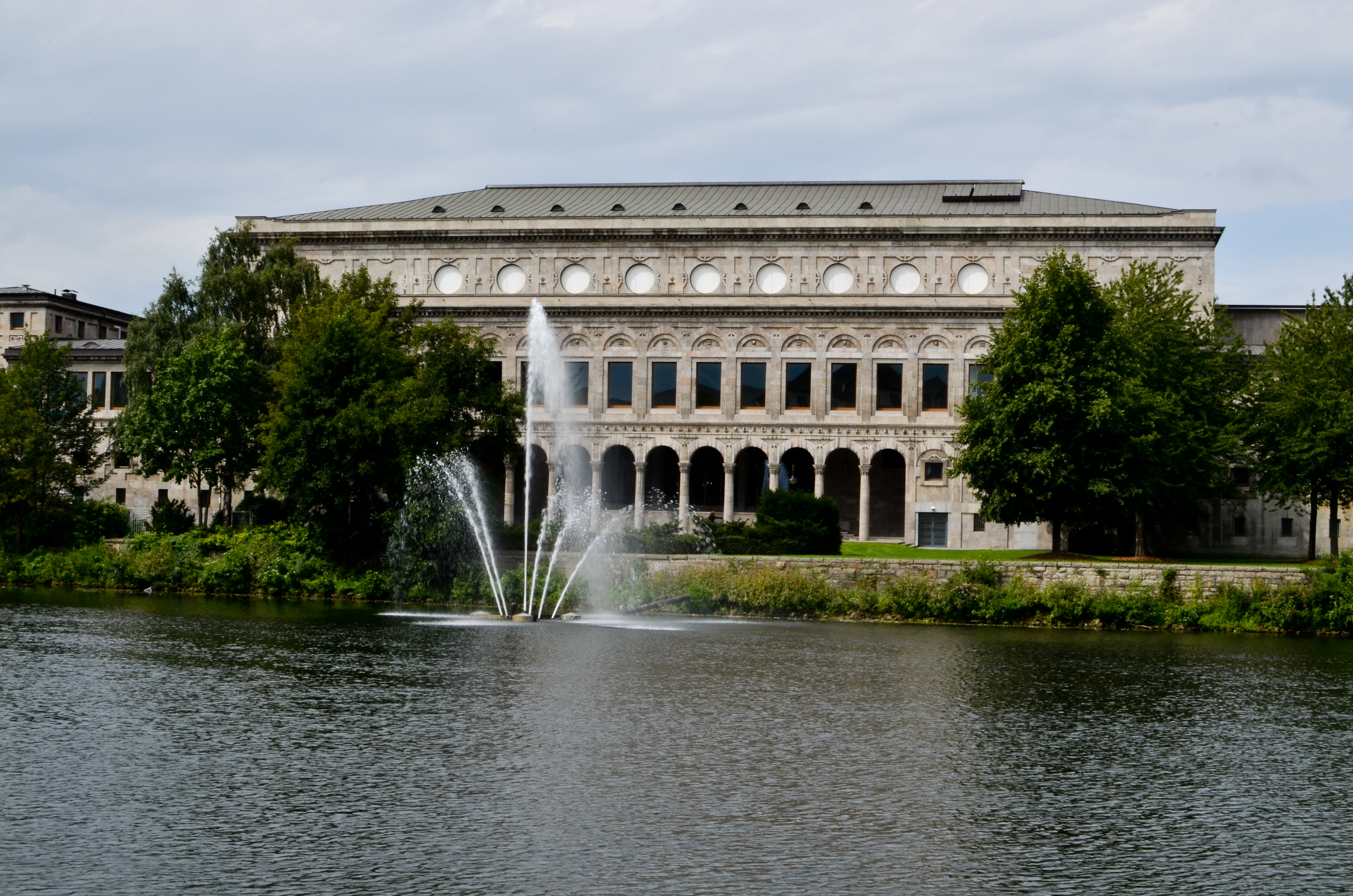 Town hall of Muelheim an der Ruhr